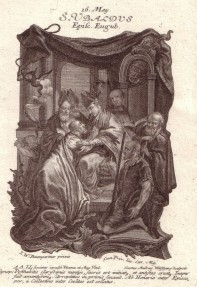 Ubald